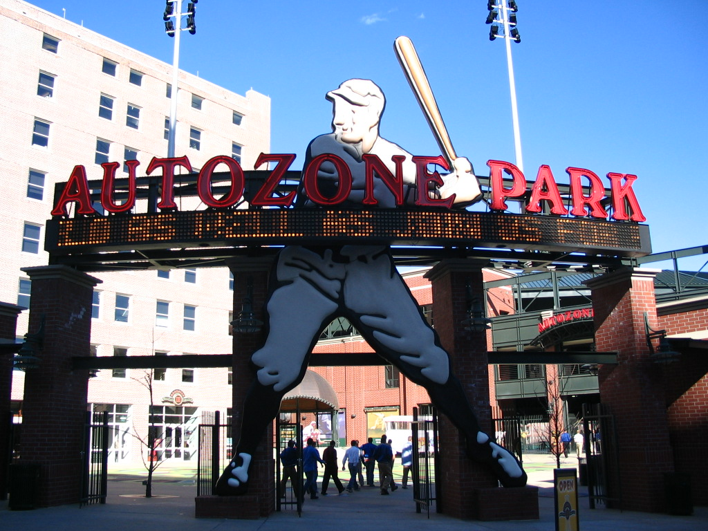 23:26, 7 September 2005 . . EMcCutchan . . 1024×768 (312,524 bytes) (An exterior photograph of AutoZone Park's main entrance)